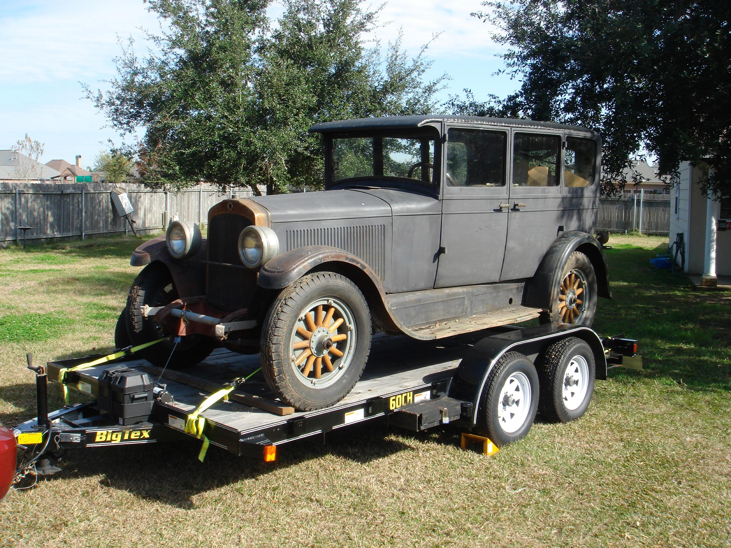 A 1928 Jordan Sedan, photo (donated under GFDL) by Mike Morgan. The car was formerly owned by Todd Goudeaux from Lafayette, and is now being restored by a member of the Jordan family in Houston, TX.